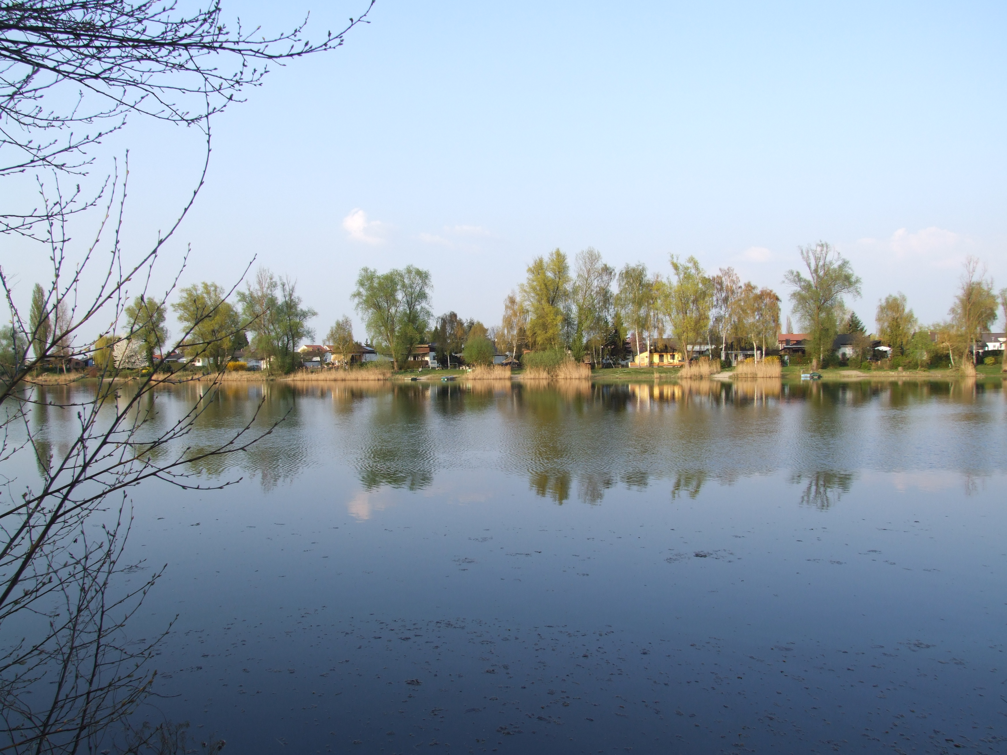 lake Speyerlachsee at Binsfeld in Speyer